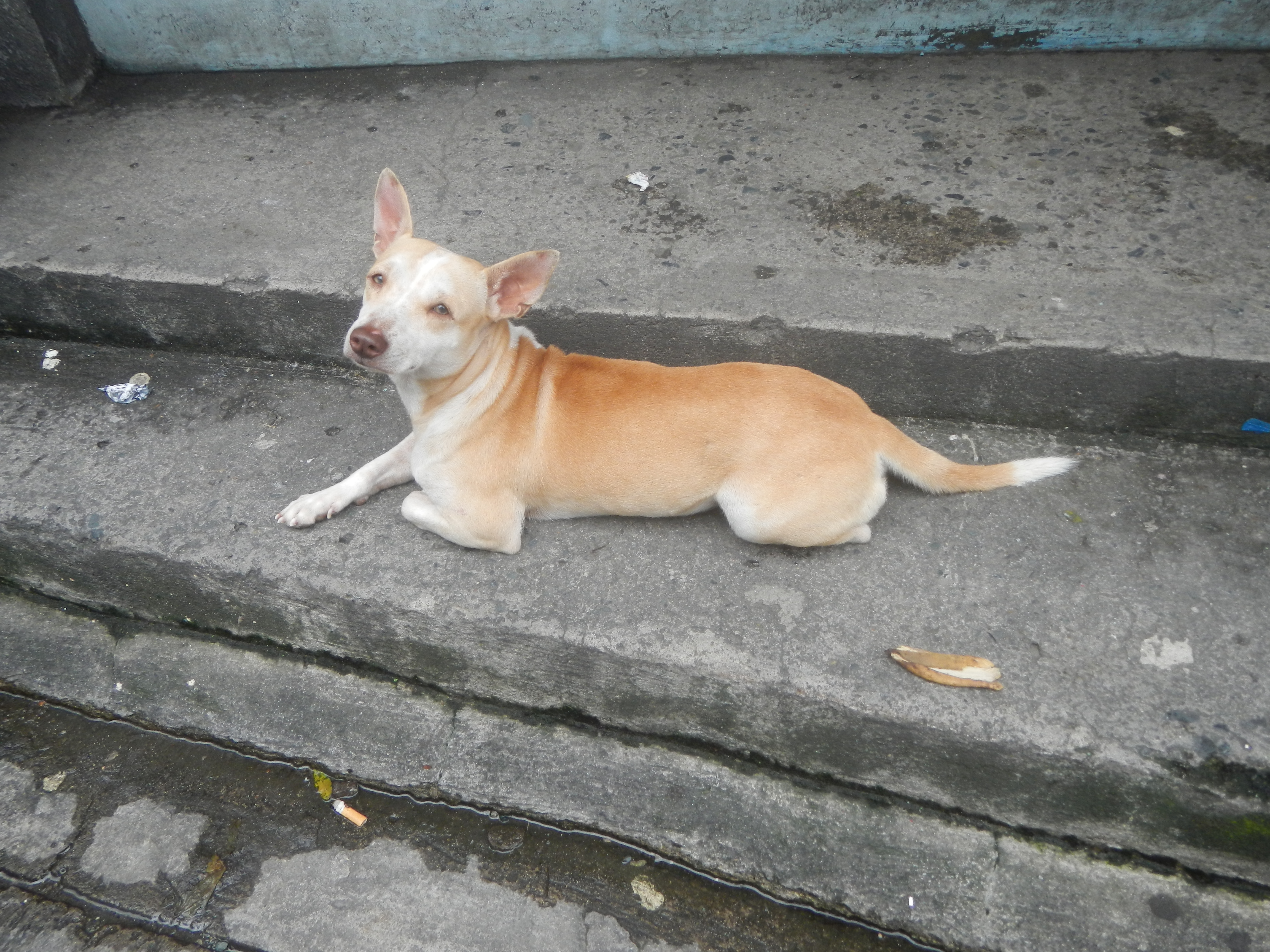 Bagbag, Novaliches, District 5, Quezon City Bagbag 14°41'54"N 121°1'57"E Typhoon Lekima (Hanna) Category:Typhoon Lekima (2019) weather, cloudy in Quirino Highway (Balon-bato, Balintawak, Baesa, Talipapa, Sangandaan, Bagbag, San Bartolome, Gulod & Novaliches Proper) from Quirino Highway (Balongbato-Camachile-Baesa, District 6, Quezon City section), Pedestrian bridge (Quirino Highway, Balongbato-Camachile, District 6, Quezon City), from and along NLEX Service Road along and from Camachile Overpass (Quezon City) or Unang Sigaw Pedestrian overpass (Balintawak, Quezon City) of the North Luzon Expressway, Radial Road 8 (gateway to List of barangays of Metro Manila Legislative districts of Quezon City Districts 6, Barangays of Quezon City, Balon-Bato 14°39'50"N 121°0'10"E Baesa 14°40'14"N 121°0'38"E Sangandaan 14.6724, 121.0180 Talipapa 14°41'14"N 121°1'31"E Bagbag 14°41'54"N 121°1'57"E San Bartolome 14°42'18"N 121°2'24"E Gulod 14°43'0"N 121°2'25"E Novaliches Proper 14°43'15"N 121°2'16"E District 6, Quezon City Philippine highway network (Note: Judge Florentino Floro, the owner, to repeat, Donor Florentino Floro of all these photos hereby donate gratuitously, freely and unconditionally Judge Floro all these photos to and for Wikimedia Commons, exclusively, for public use of the public domain, and again without any condition whatsoever).